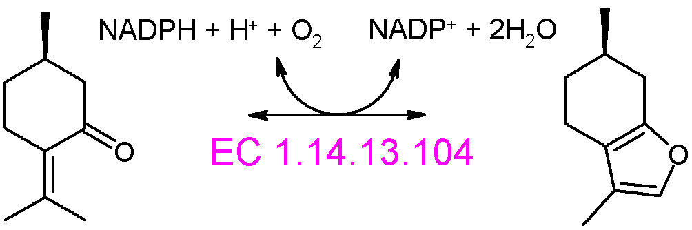 (+)-menthofuran_synthase_reaction